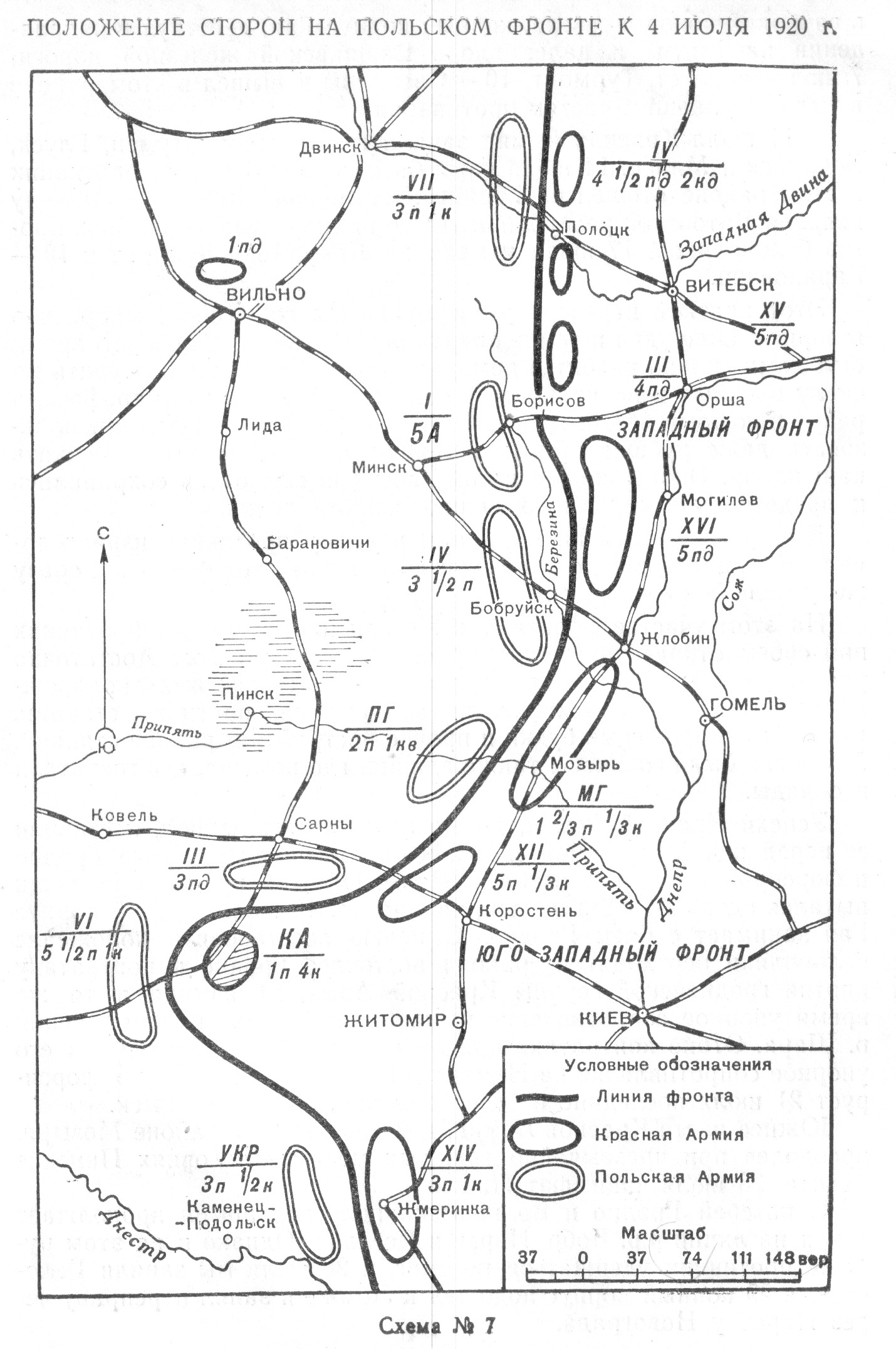 Polish-Soviet front. 4.07.1920.